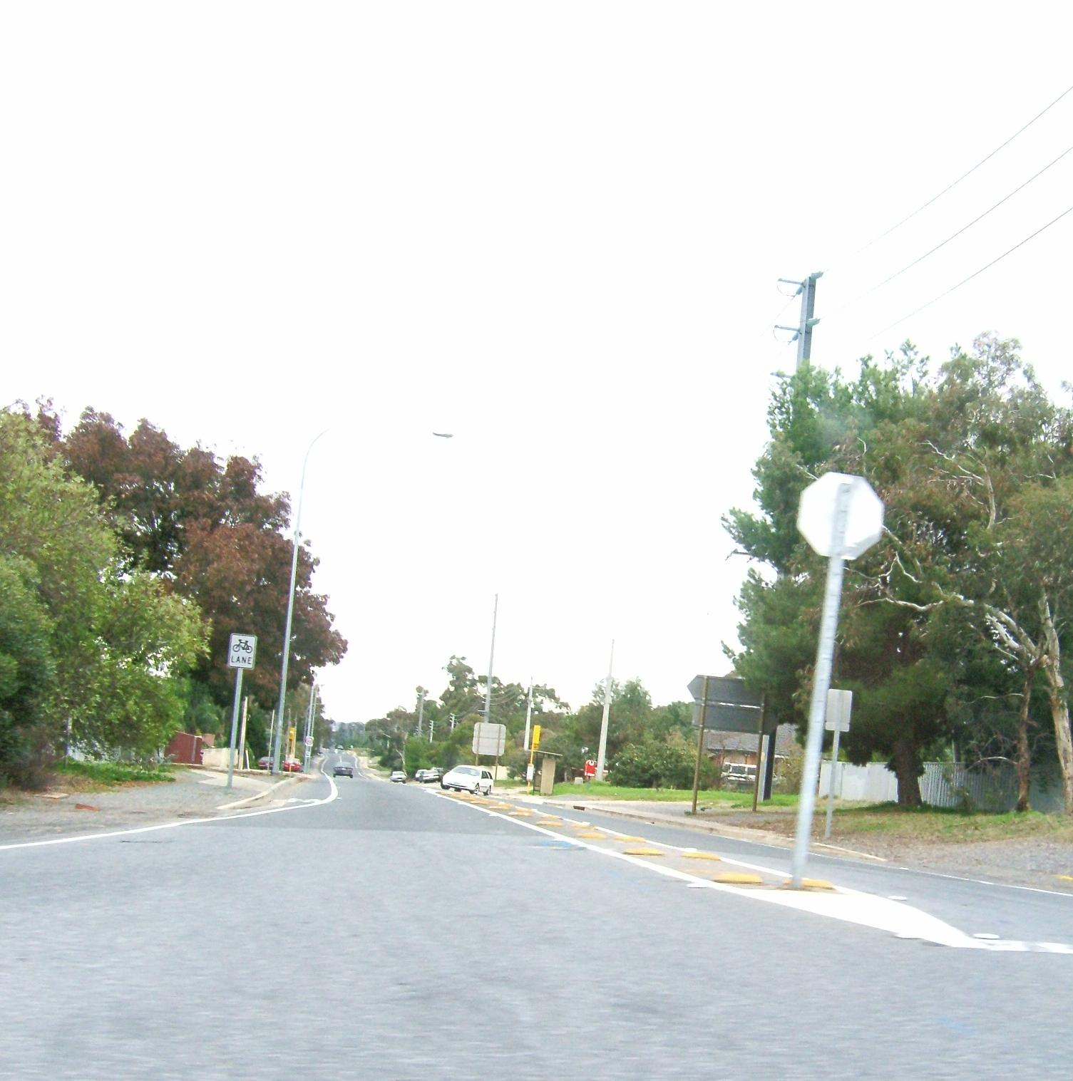 En:Vista, South Australia